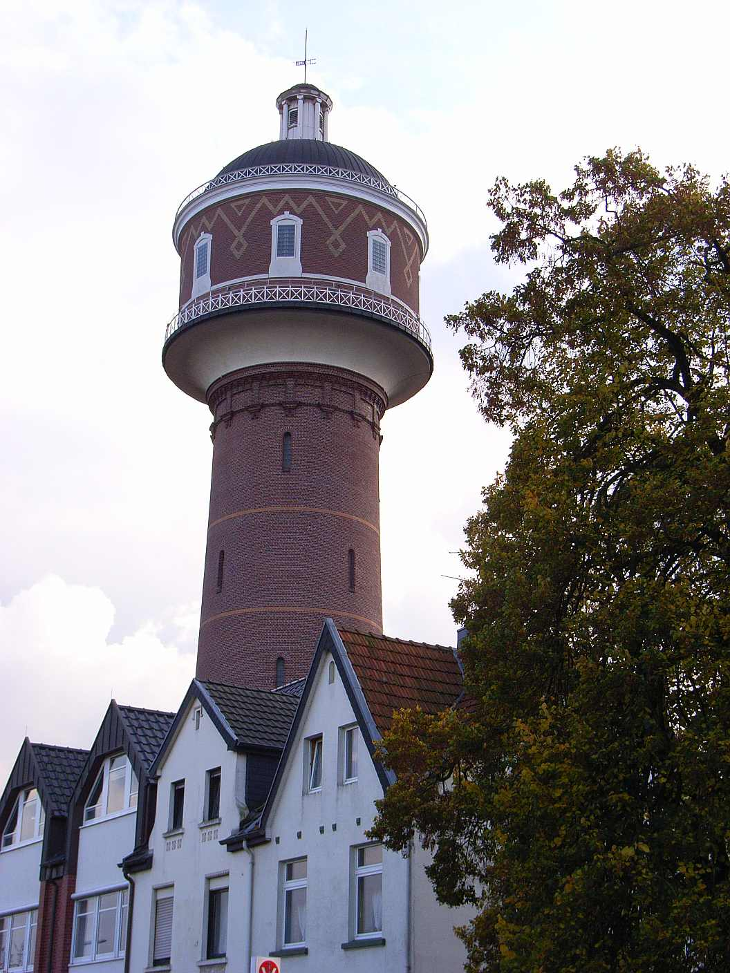 Water Tower Kevelaer, NRW